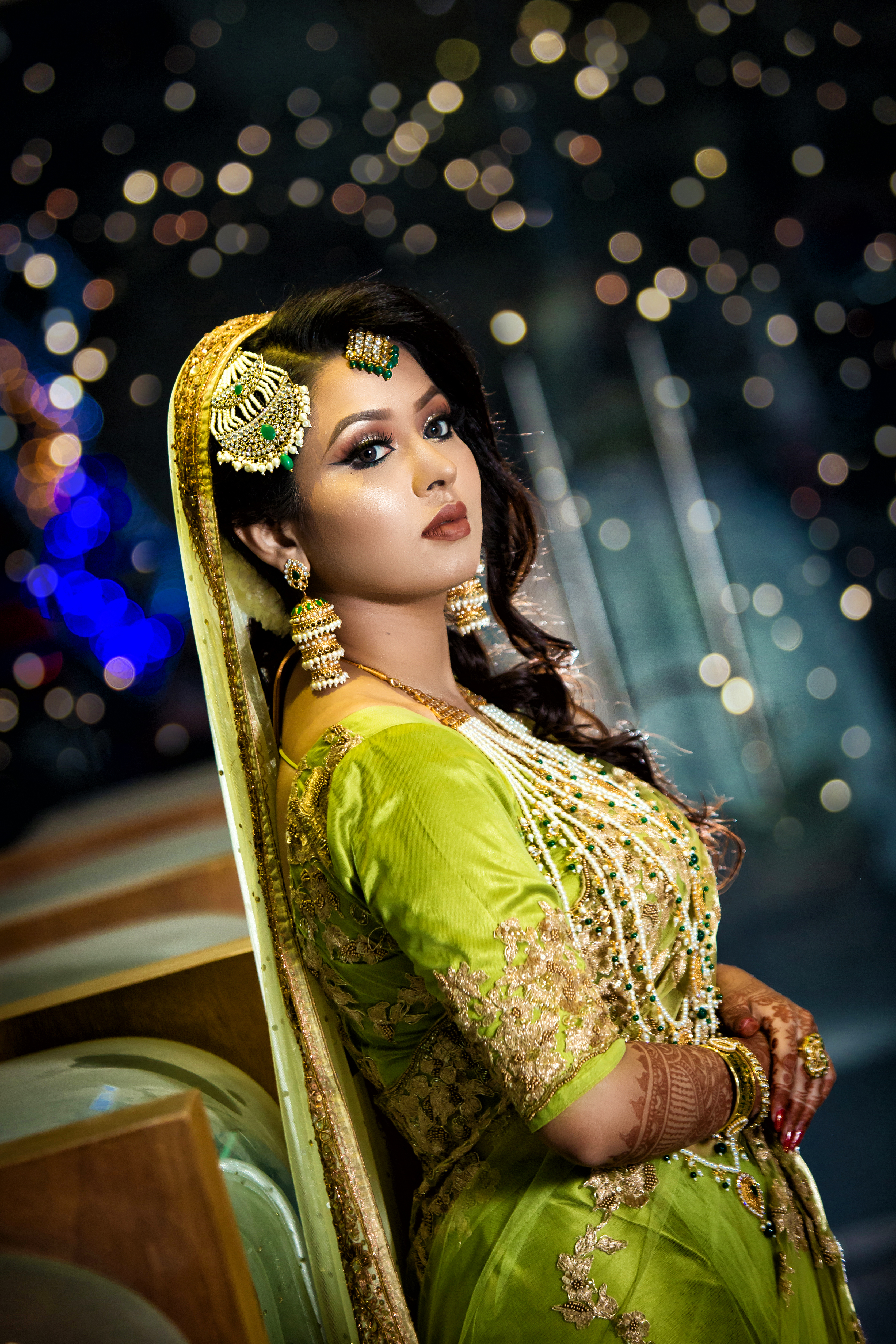 Bride from Bangladesh